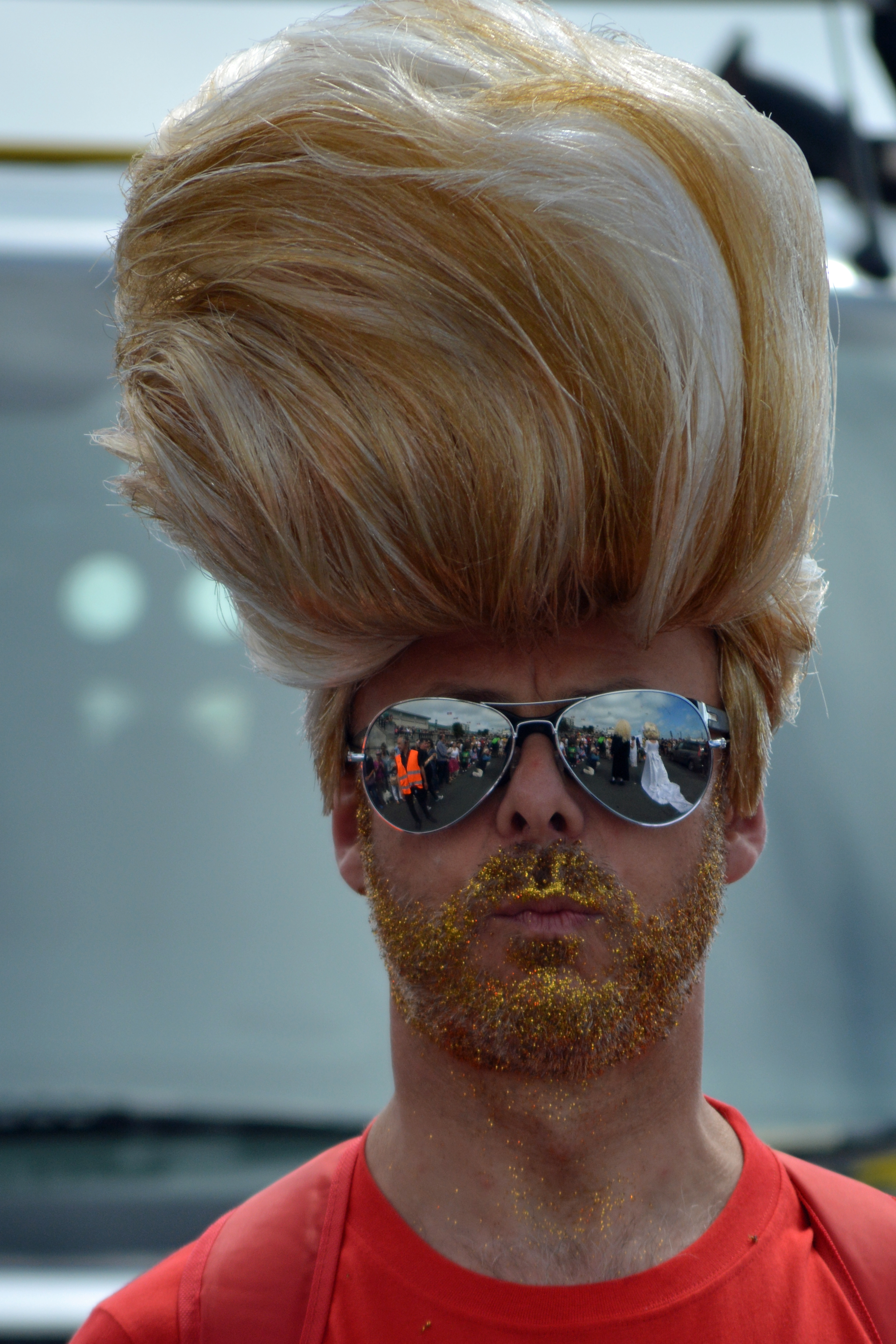 Brighton Pride 2013